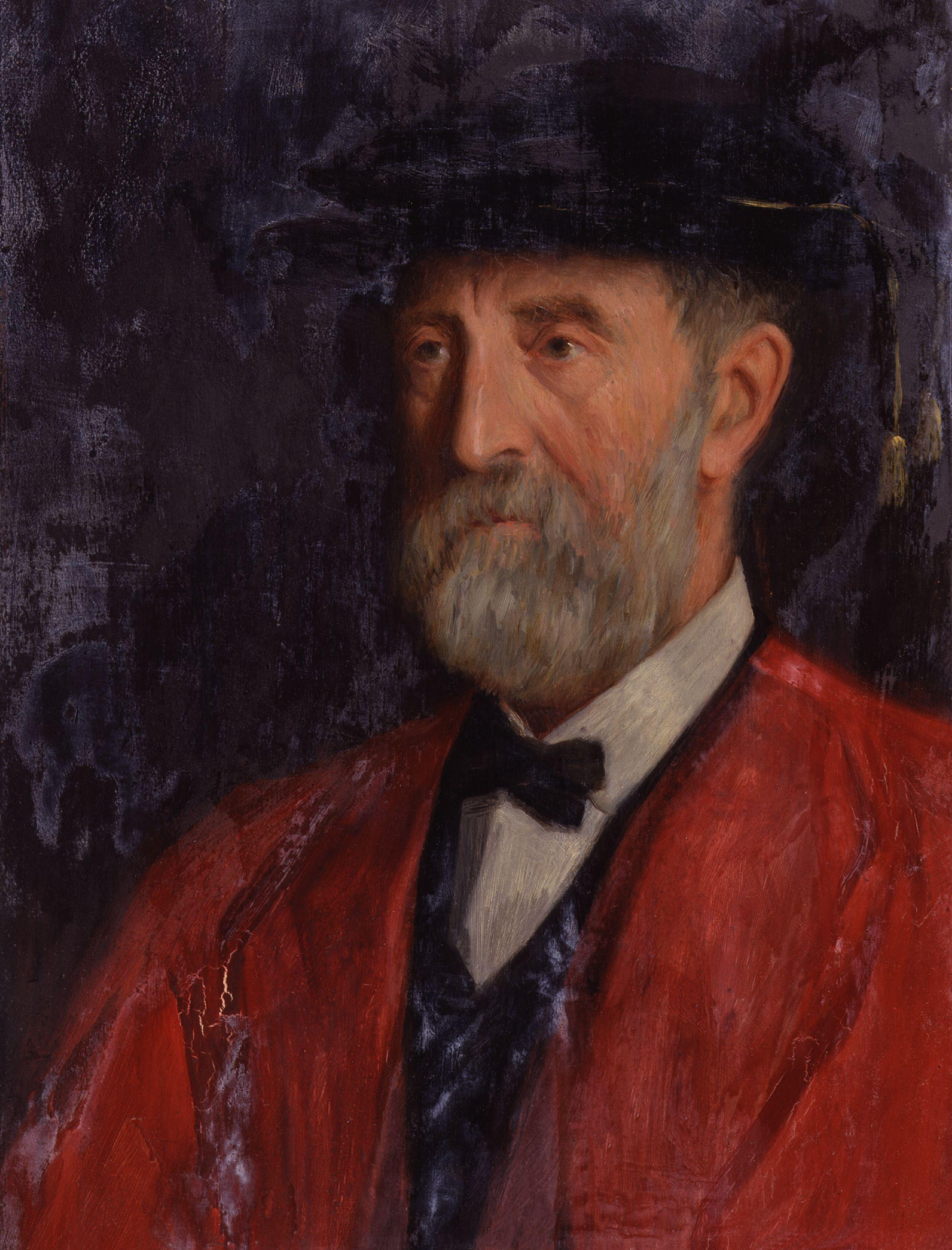 John Westlake, by Alice Westlake (née Hare) (died 1923). All images in this batch have been confirmed as author died before 1939 according to the official death date listed by the NPG.